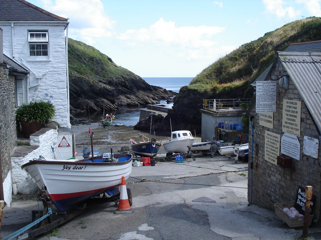 Portloe Harbour